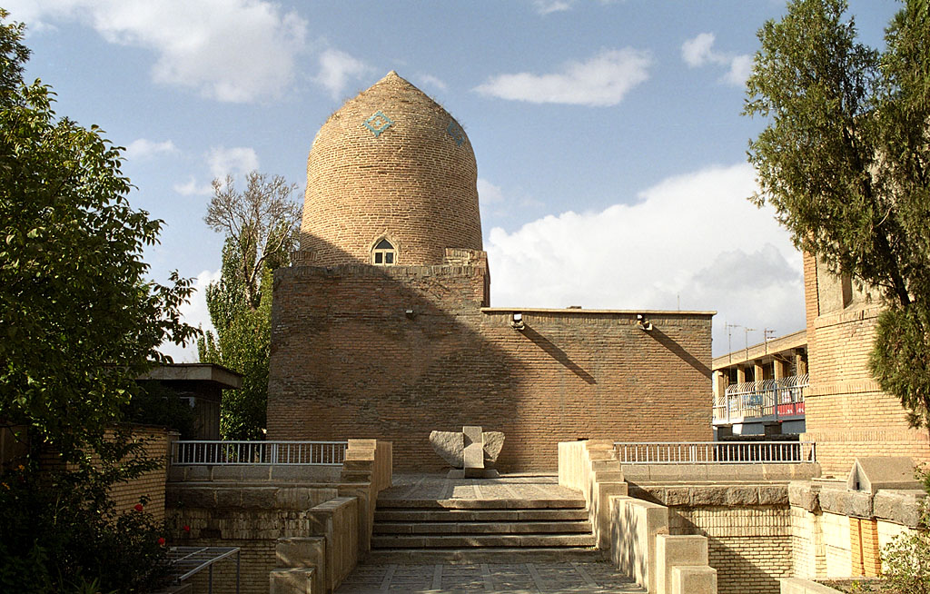 The mausoleum of the biblical Esther, wife of Xerxes I, and her cousin Mordechai. Also attributed to Shushan-Dukht, the Jewish wife of the Sassanian king Yazdigird I (399-420). It's the most important jewish pilgrimage centre in Iran. Hamadan.